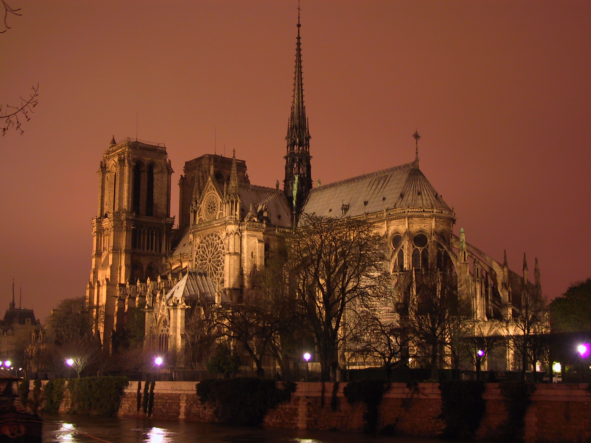 Notre Dame de Paris, southern view, at night